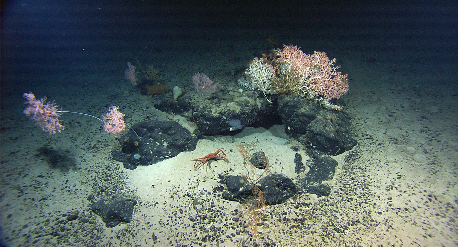 Mountains in the Sea Expedition 2004. A crab strikes an agressive pose to protect this oasis of spectacular diversity. New England Seamount Chain.